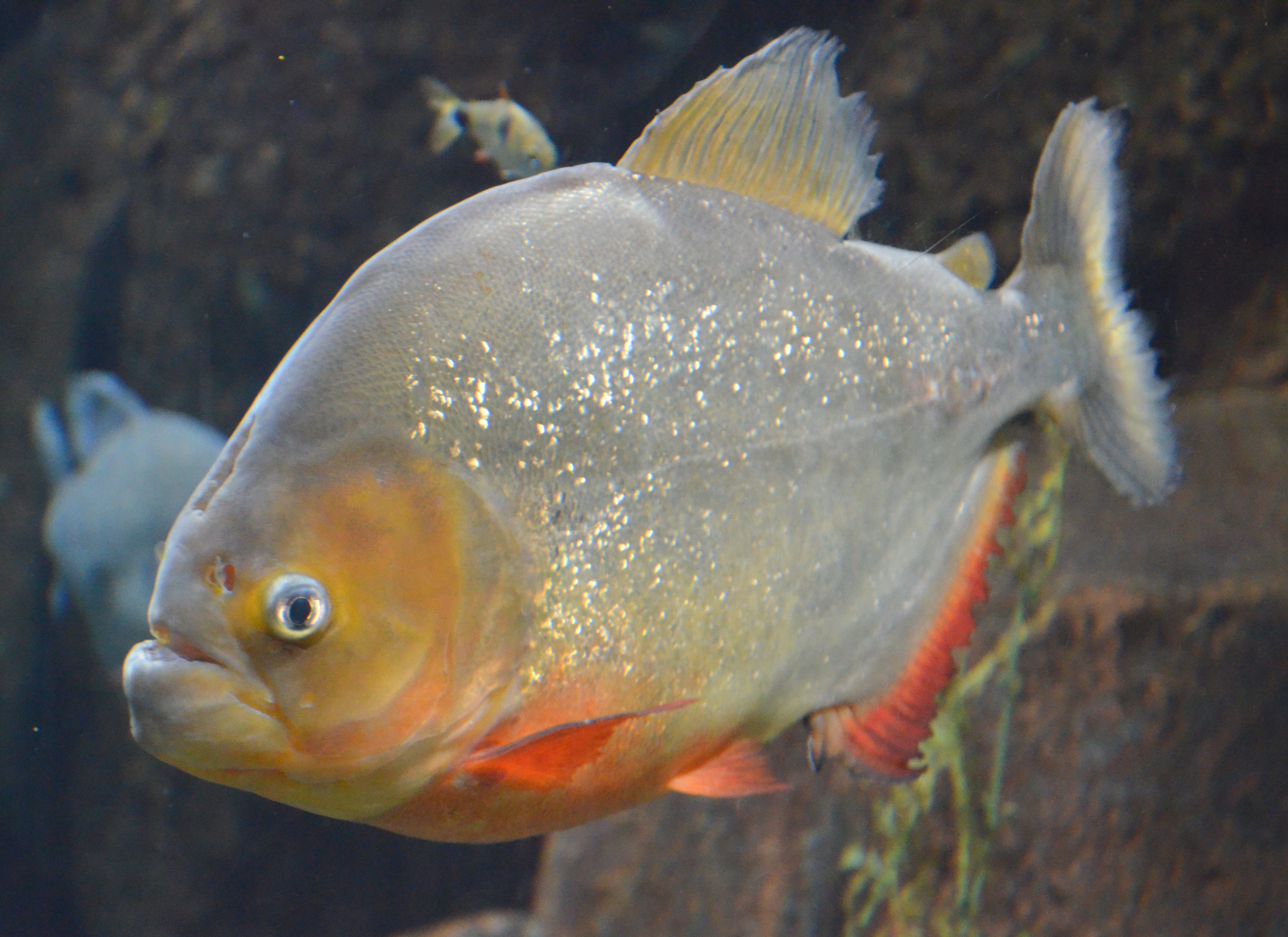 Red Piranha (Pygocentrus Nattereri) photographed from Georgia aquarium